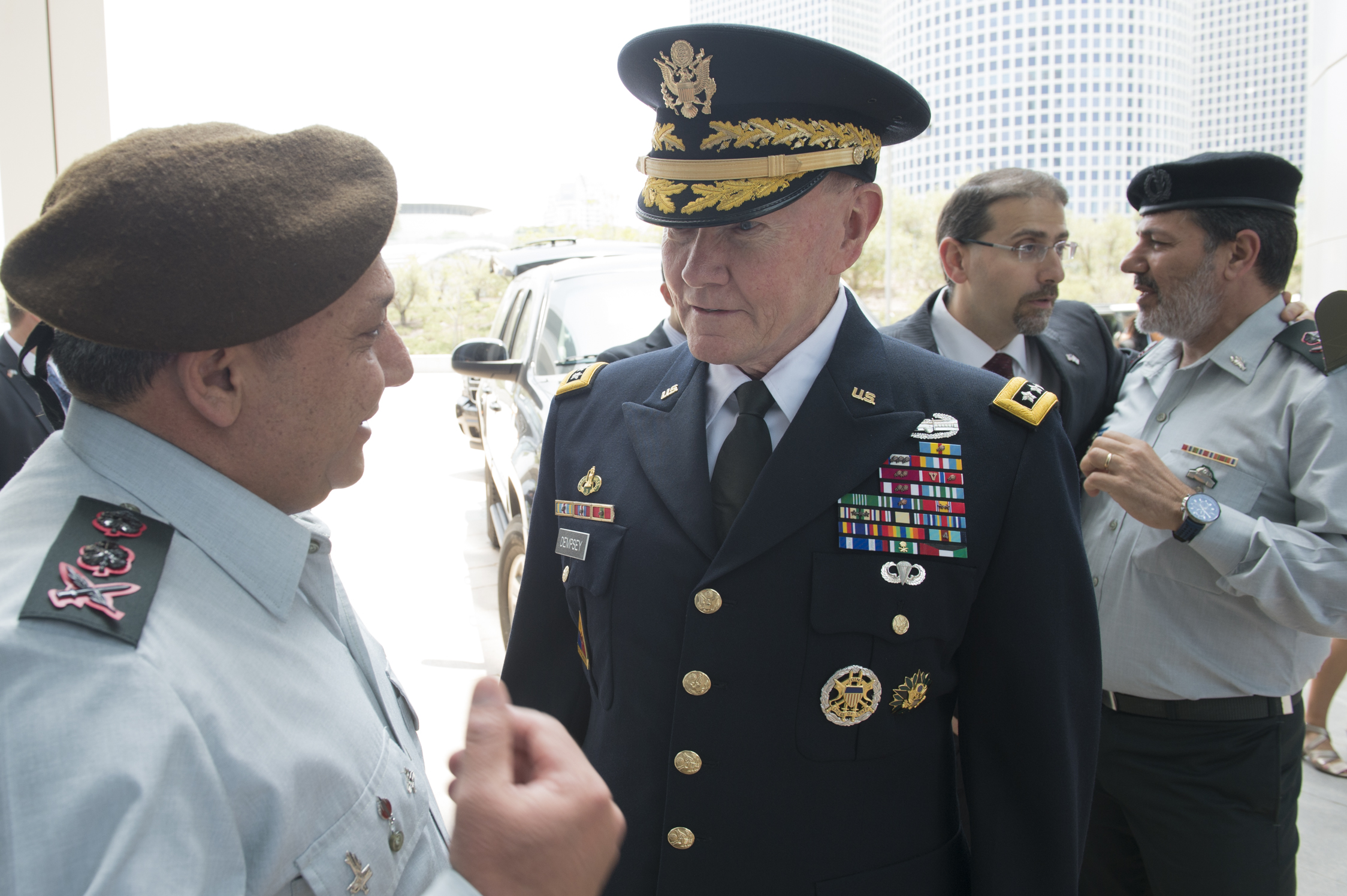 Israeli Chief of Defense Lt Gen Gadi Eisenkot talks with Gen. Martin E. Dempsey, chairman of the Joint Chiefs of Staff, while US Ambassador to Israel, Dan Shapiro, talks with Maj Gen Yaacov Ayish, Defense Attaché to the USA, before they participate in a honor guard ceremony in Tel Aviv, Israel, June 9, 2015. DOD photo by D. Myles Cullen/Released)